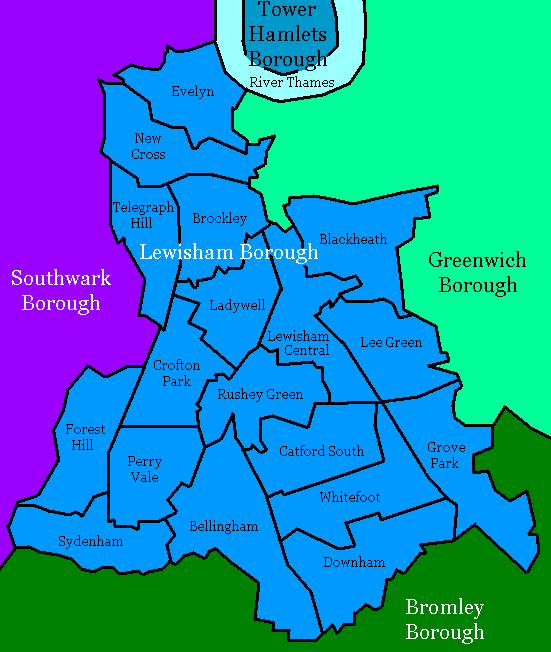 Map showing the boundaries of the London Borough of Lewisham and its 18 wards, created by Carlwev (talk) in Microsoft Paint